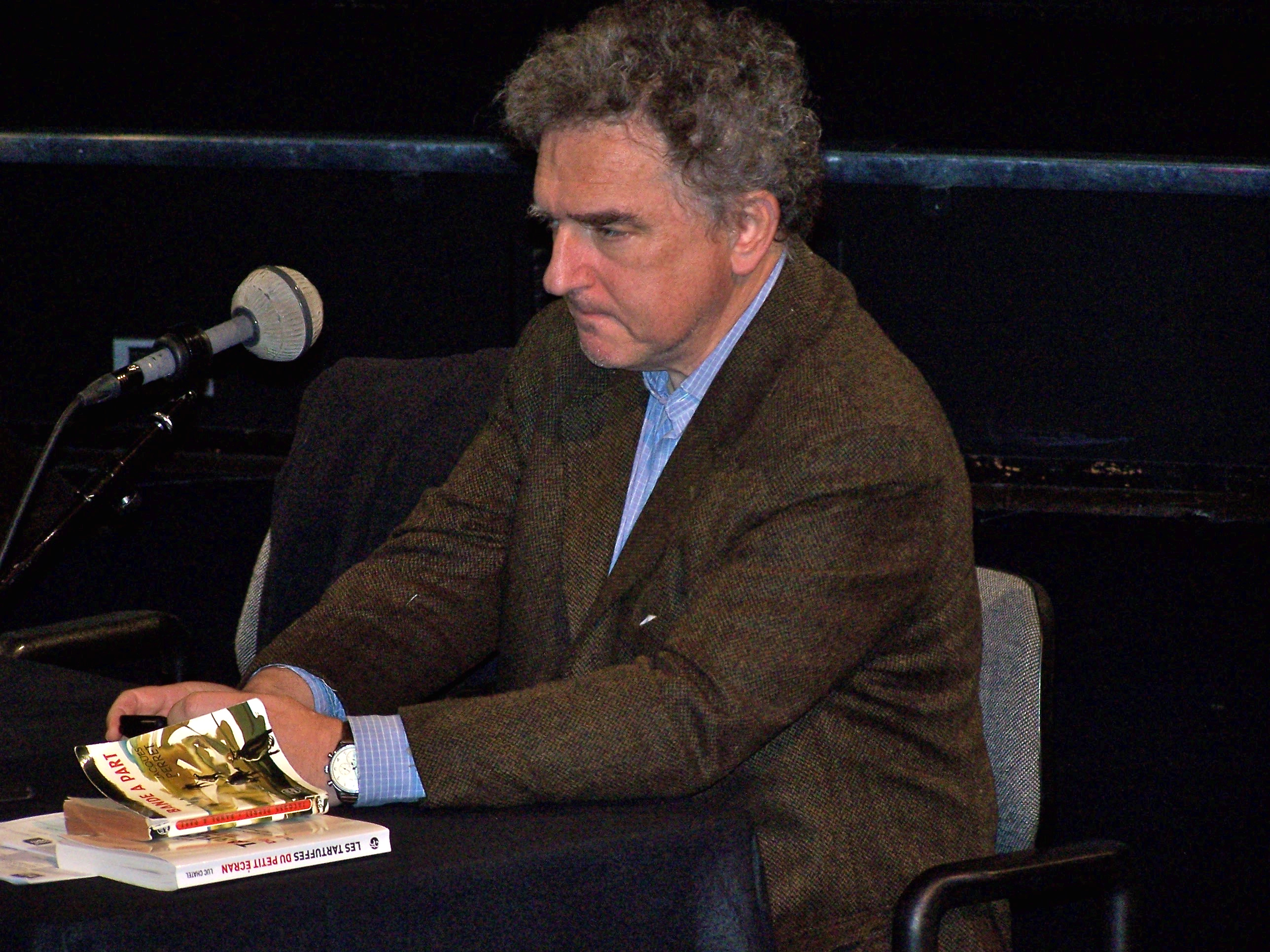 French critic Michel Crépu before the radio programme Le Masque et la Plume on Nov 15th 2012 (aired on Nov 25th 2012).